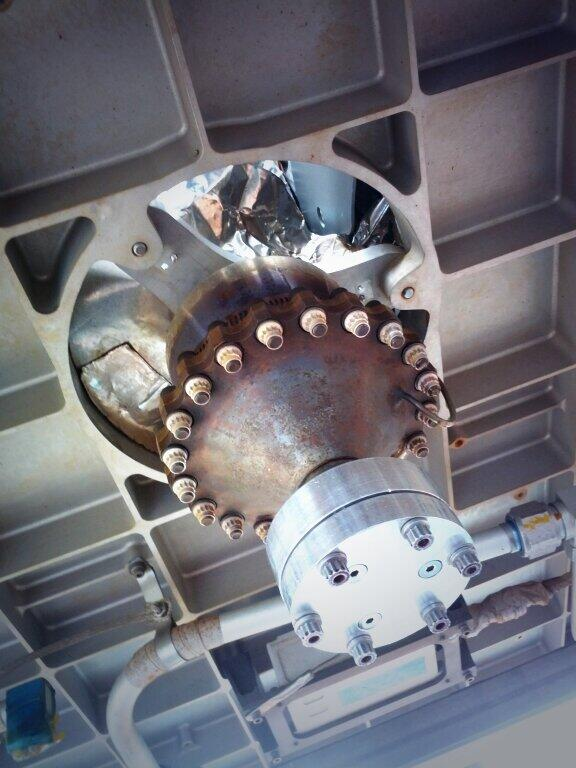 The main thruster of the NASA Mighty Eagle lander testbed with its cover removed. Uses hydrogen peroxide as propellant.